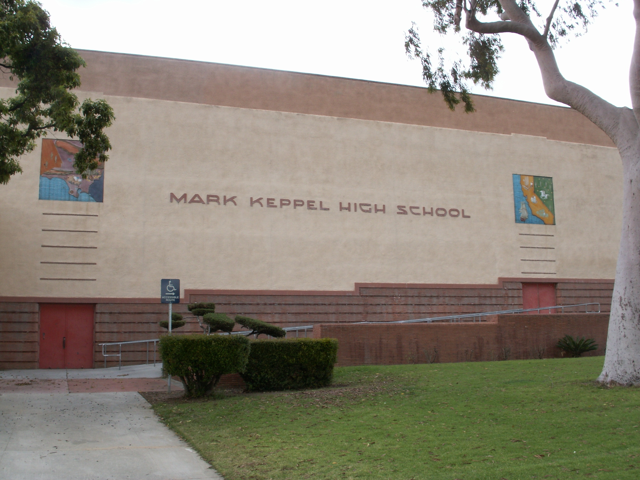 Mark Keppell High School - Southern face of Mark Keppel High School Auditorium. Features down-stepping brickwork, two of the murals of Millard Sheets's Early California, and the name of the school set in brick.